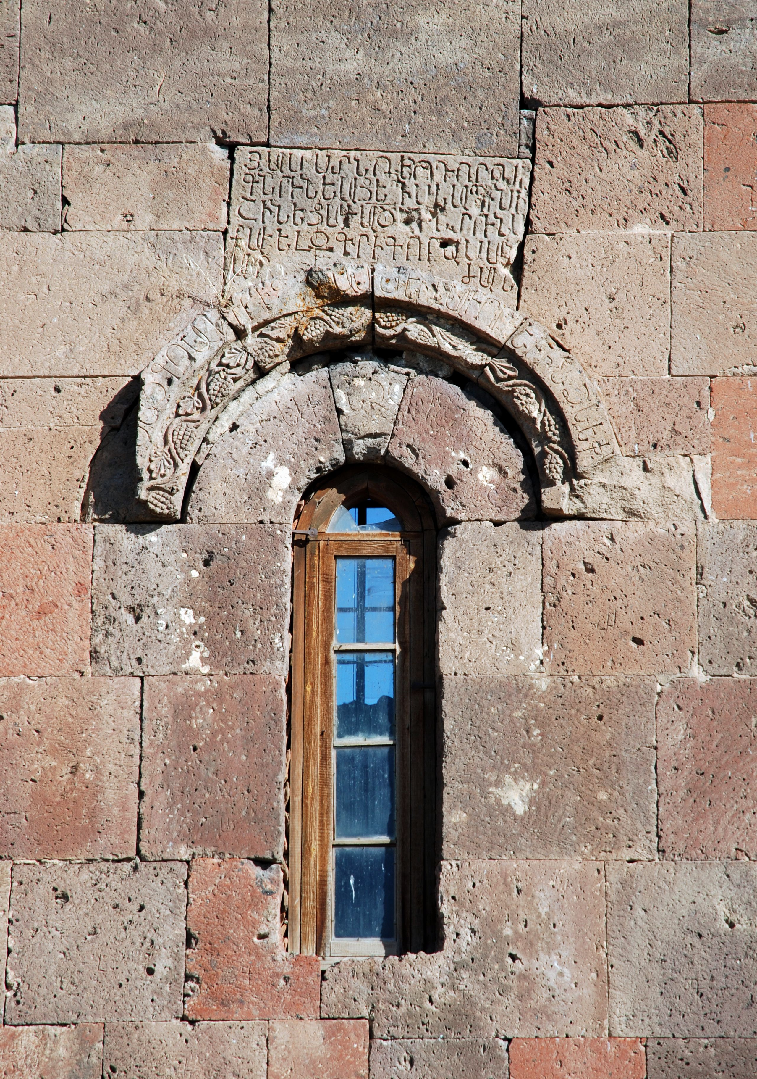 Mastara, church, southern window